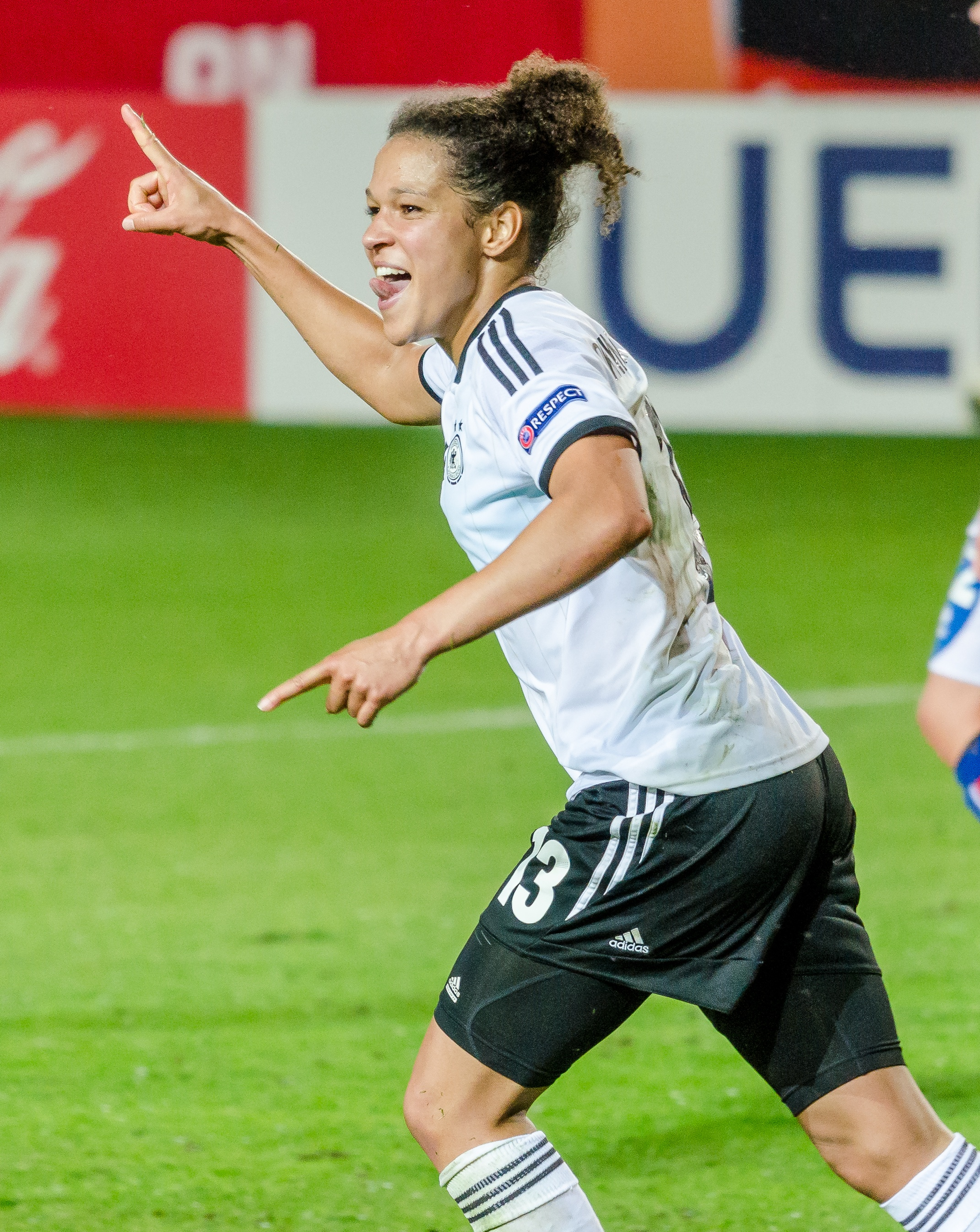 German football attacker Célia Šašic' (then Okoyino da Mbabi) playing a Group stage game against Iceland in the UEFA Women's Euro 2013 at Myresjöhus Arena in Växjö.